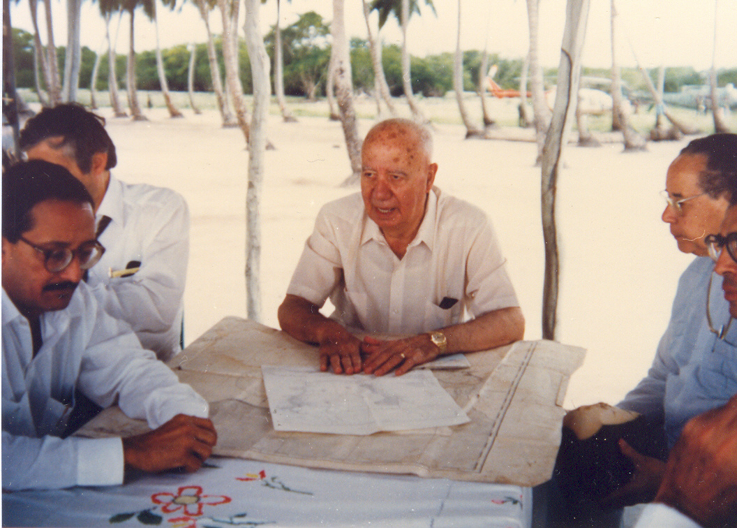 Paolo Emilio Taviani at Soana Island, 1989